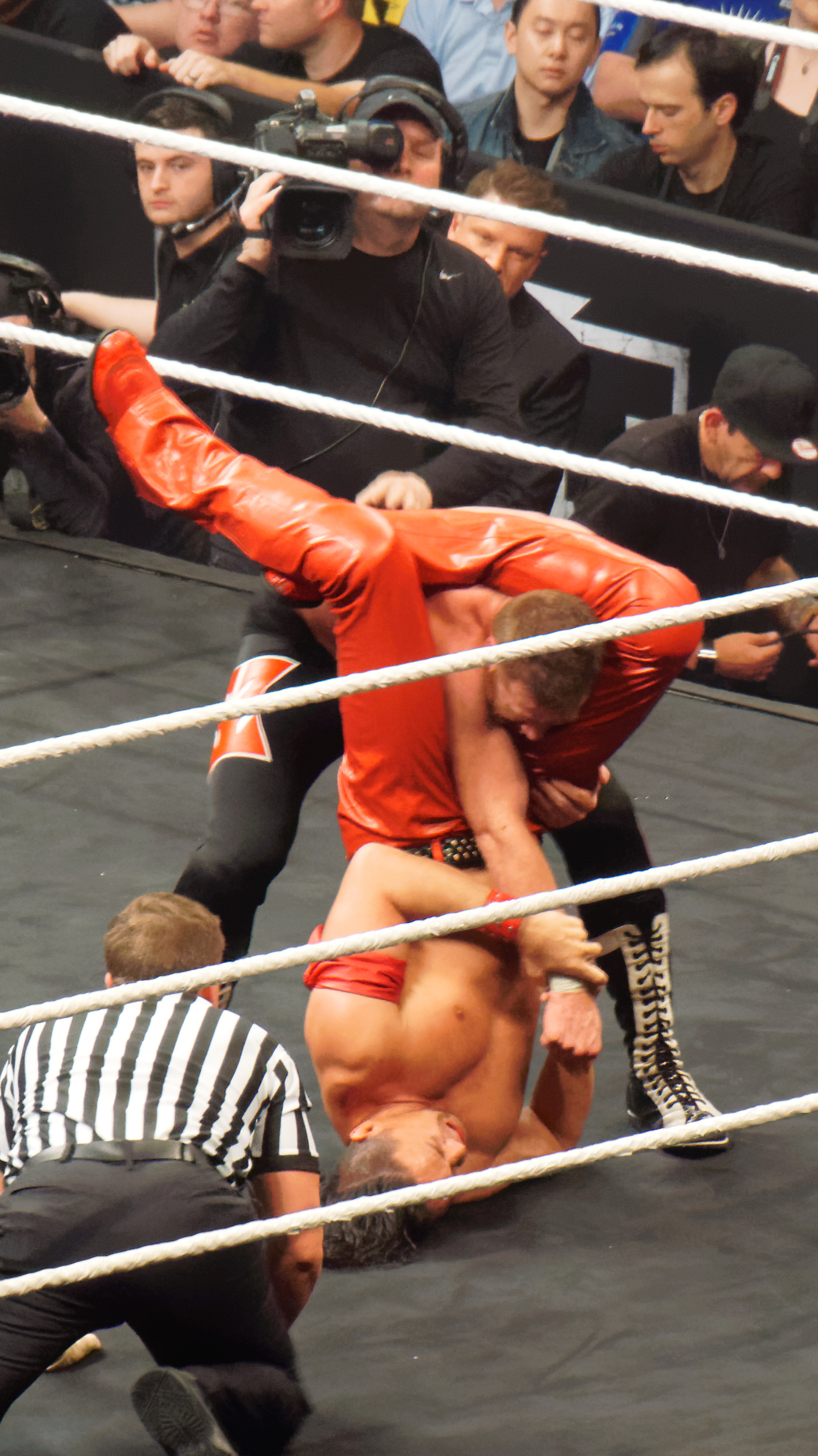 NXT TakeOver: Dallas was a major professional wrestling show in the NXT TakeOver series that took place on April 1, 2016, produced by WWE, showcasing its NXT developmental brand, and was streamed live on the WWE Network. It took place in the Kay Bailey Hutchison Convention Center in Dallas, Texas, during the weekend of WrestleMania 32. It was the first show in the NXT TakeOver series to be broadcast live on the WWE Network during WrestleMania weekend and first of 2016.[4] It was notable for Shinsuke Nakamura's WWE debut and first live match. The event received critical acclaim, with critics endorsing it as being better than WWE's WrestleMania 32 held two days later. The Zayn-Nakamura match was also lauded for being better than any match from WrestleMania 32. Shinsuke Nakamura def. (pin) Sami Zayn